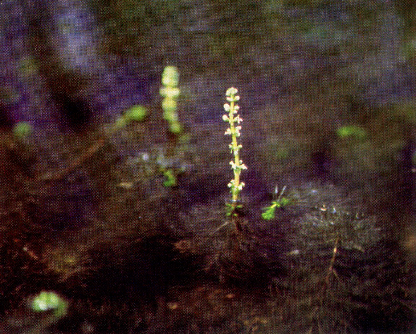 Myriophyllum verticillatum inflorescens